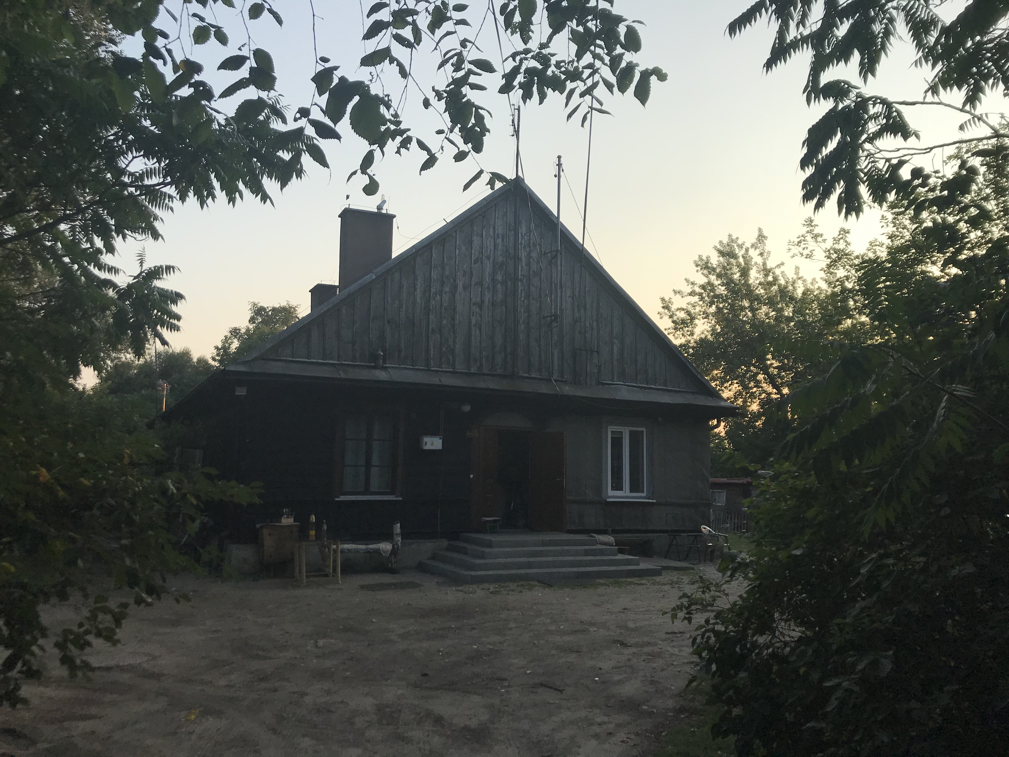 Old Mennonite house of prayer in Kazun Nowy (Poland). Not in use for religious purposes after WWII